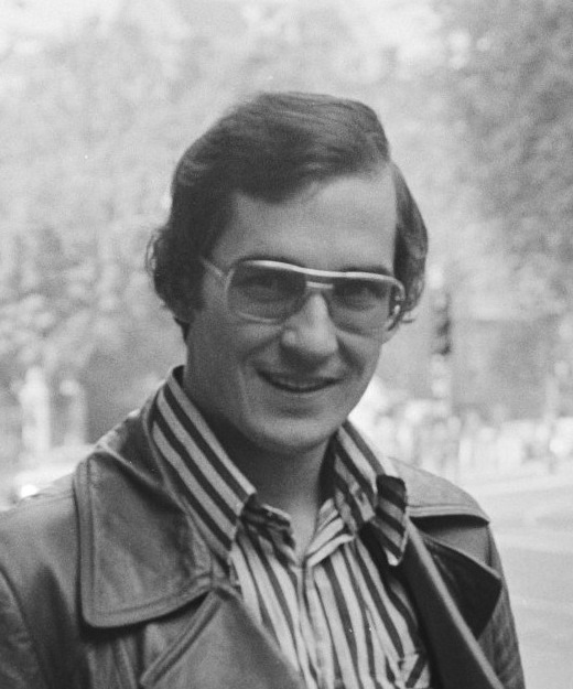 Tom Lund.